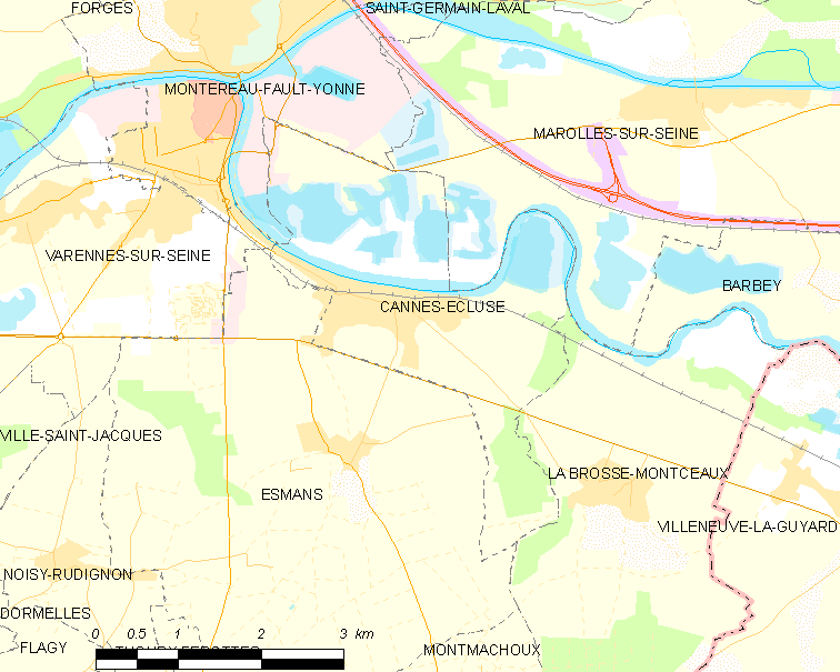 Map of French municipality Cannes-Écluse